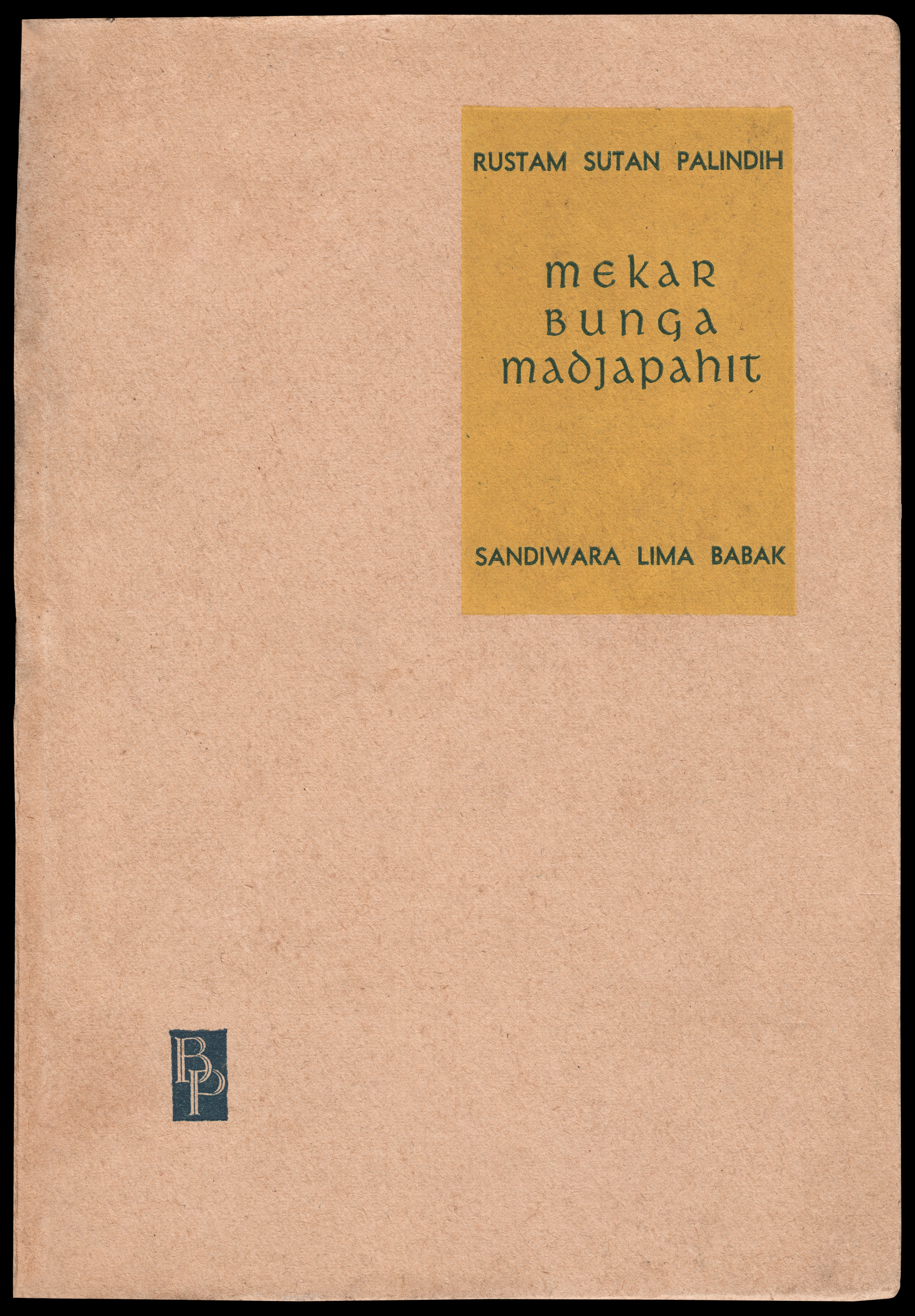 Roestam Soetan Palindih. Mekar Bunga Madjapahit. Cover of the second printing